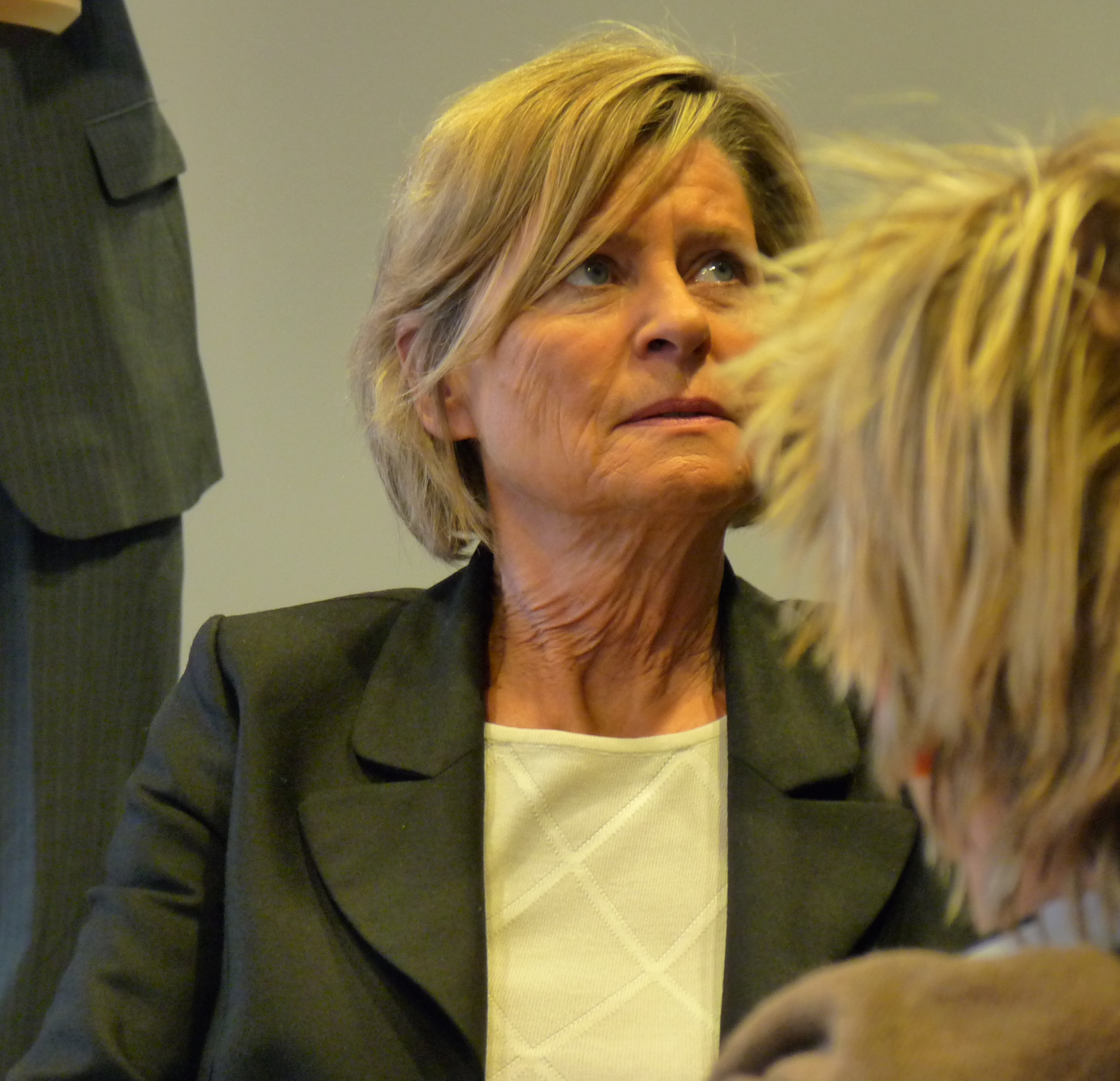 Danish Member of Parliament and former Member of European Parliament, Lone Dybkjær (Social Liberals)